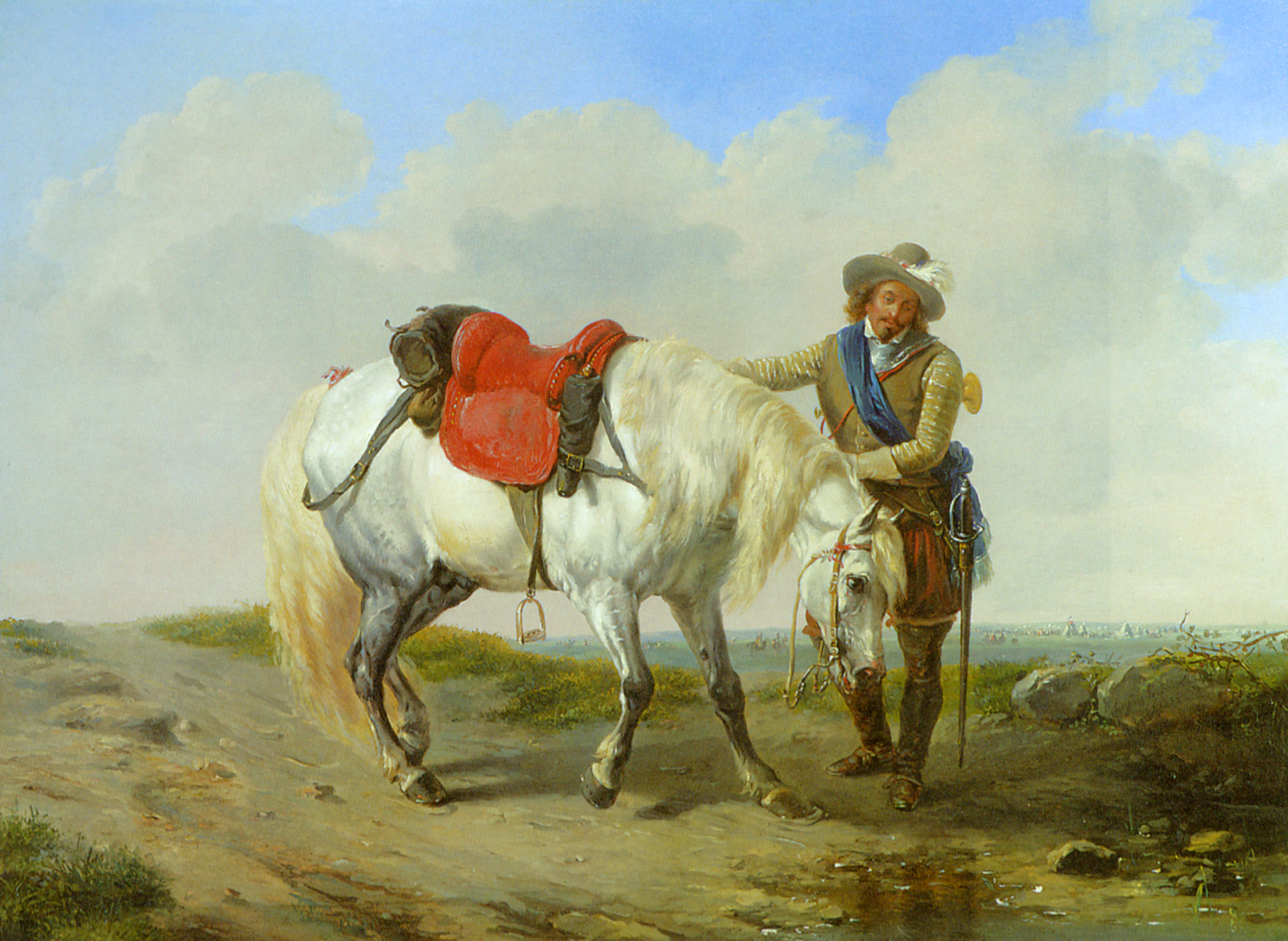 A Cavalier Watering his Mount